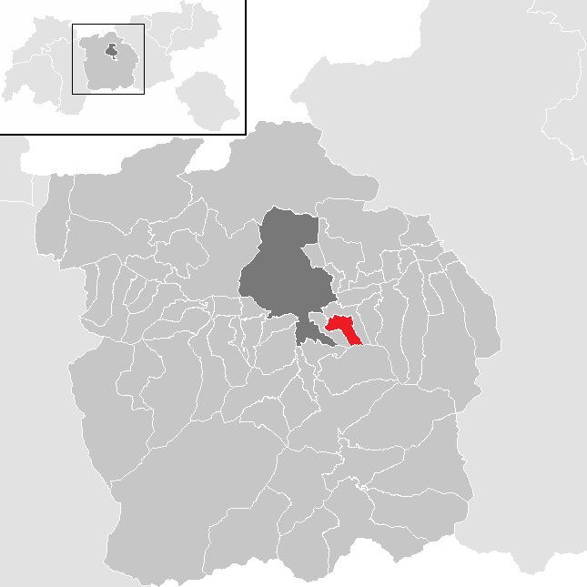 District Innsbruck Land